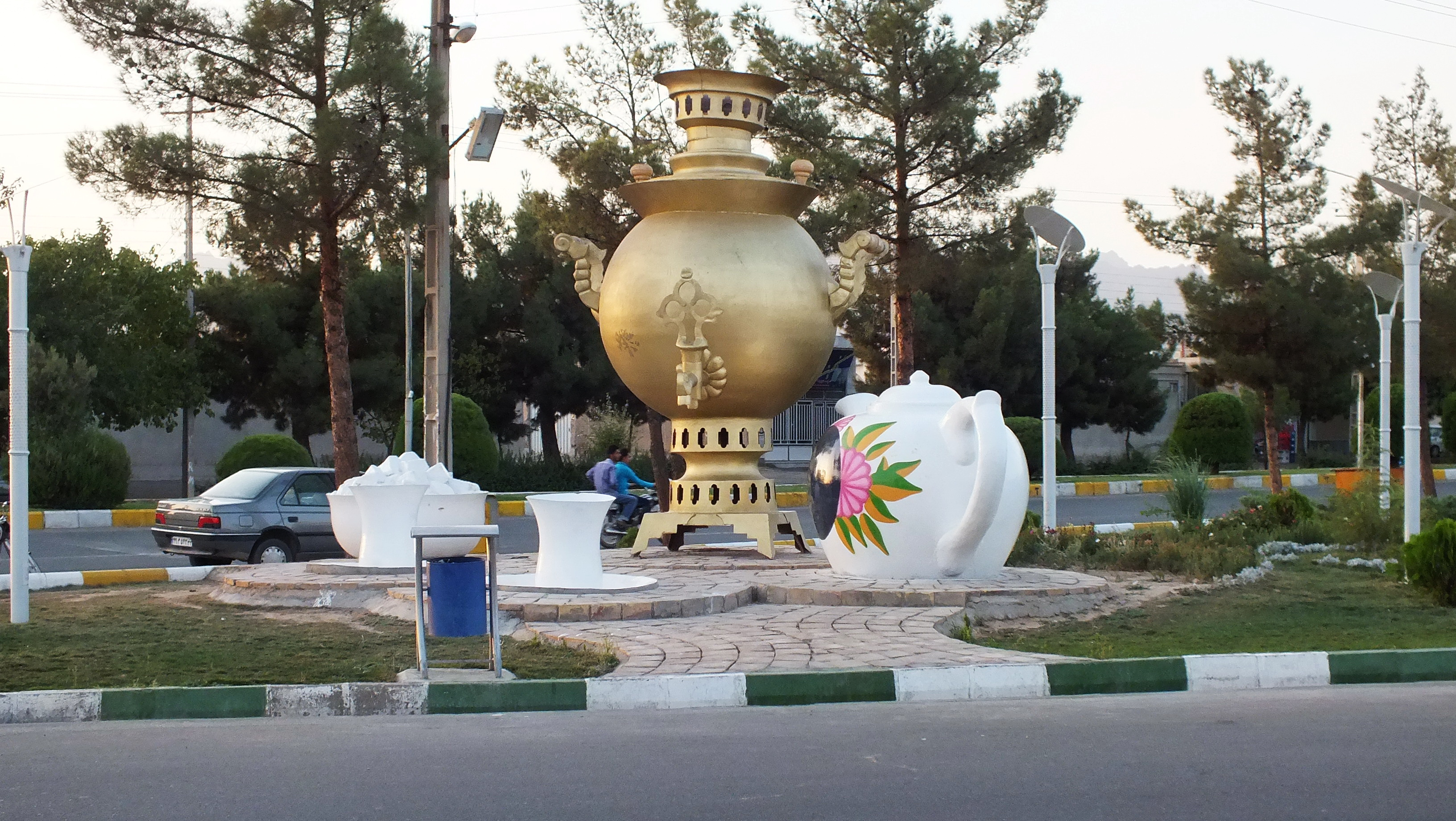 Pot-Samovar-Sugar bowl-Statue-Kashmar